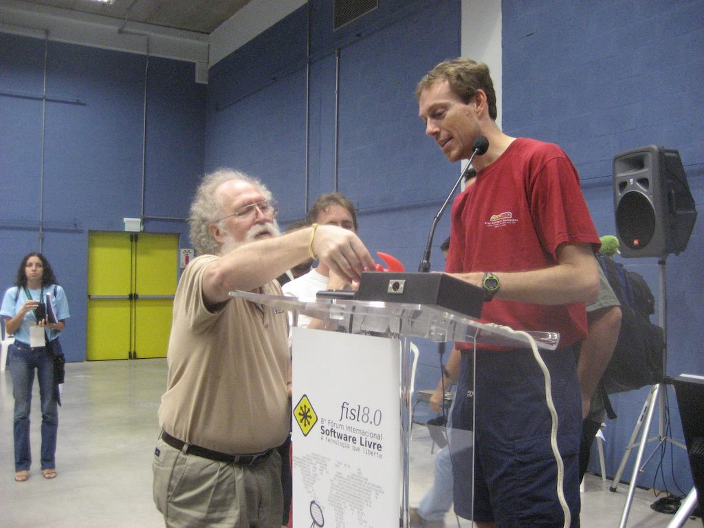 Jon "maddog" Hall gives Theo de Raadt a set of red plastic horns, ala the BSD daemon, at fisl8, 8th International Free Software Forum in Porto Alegre, RS, Brazil.